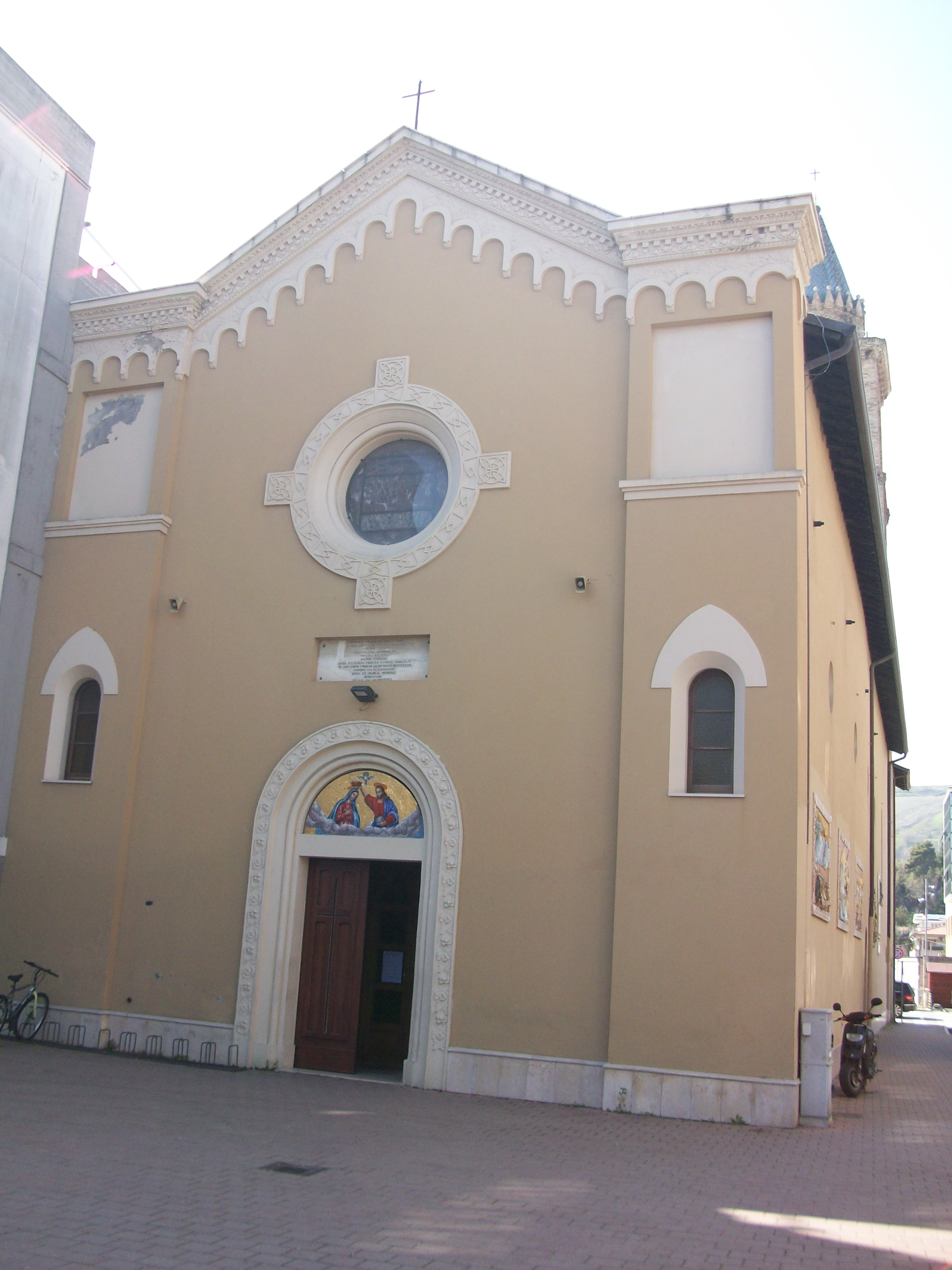 Roseto degli Abruzzi - Santa Maria Assunta church